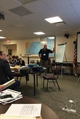 Donald Vandergriff teaching a tactical decision game in 2015.